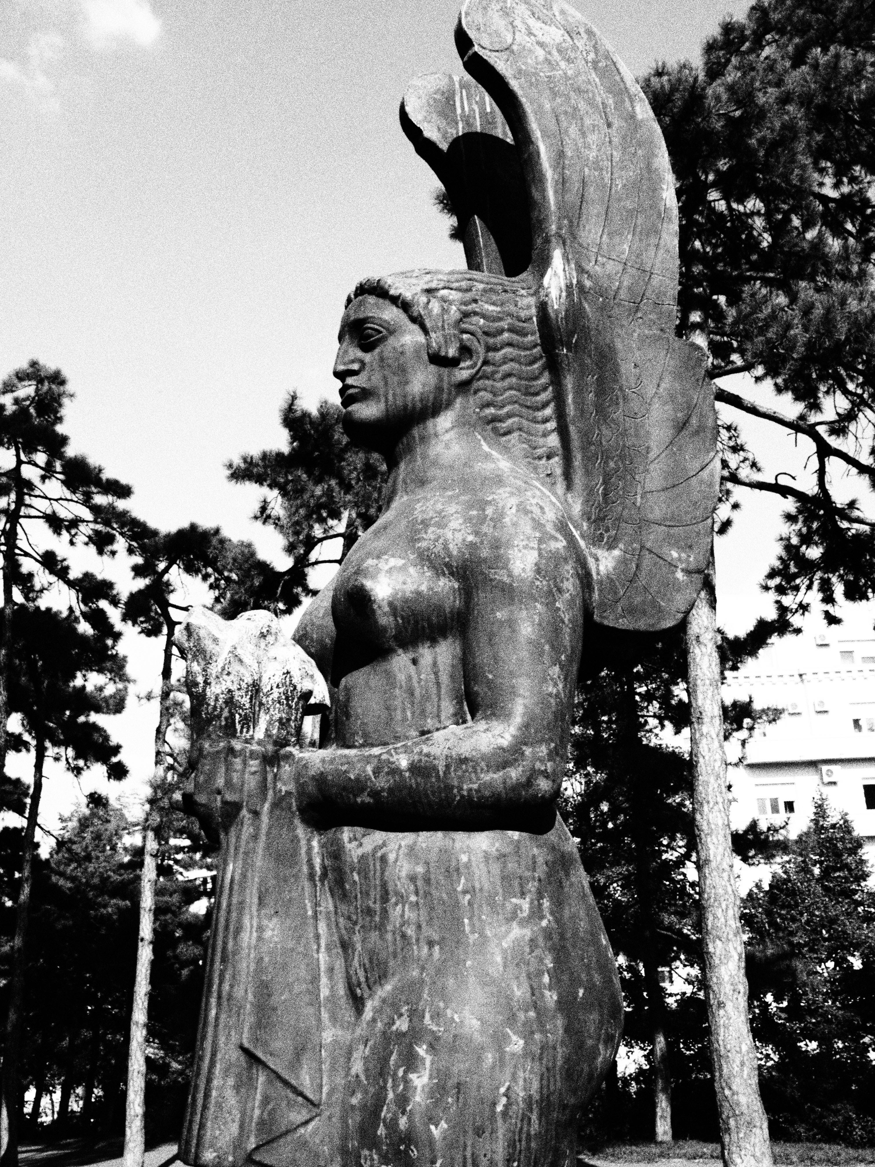 mestrovic vidovdanski hram angel